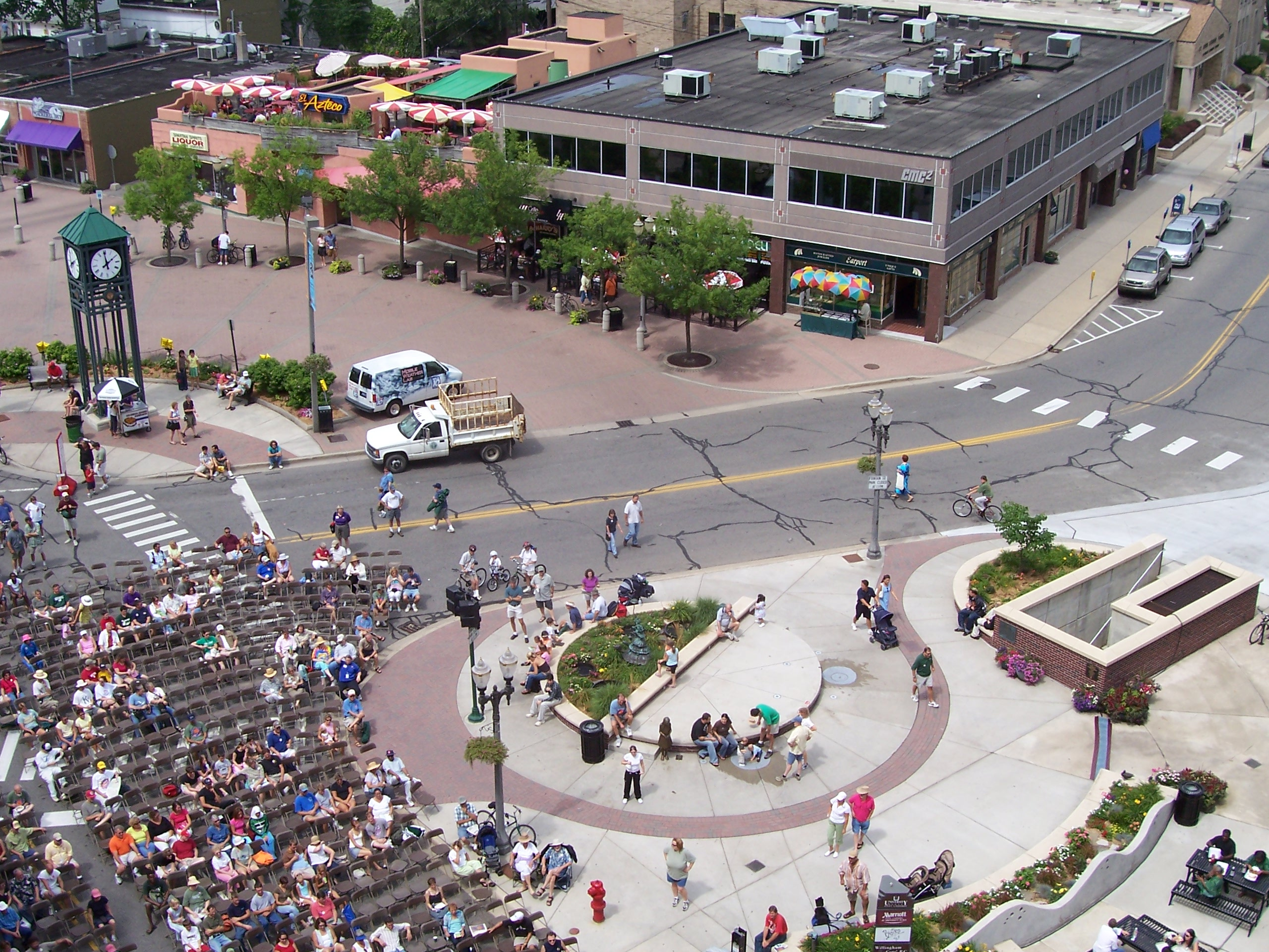 I took this picture myself.